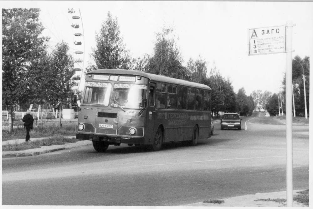 Bus LIAZ-677M number ???, license plate 9291 ЯРП, turns from Mayakovsky street to Cooperative street, Pereslavl. Route 1 from Selkhoztekhnika to Slavich. The inscription on the bus side says: «1692—1992. Pereslavl-Zalessky — the birthplace of the Russian Navy».